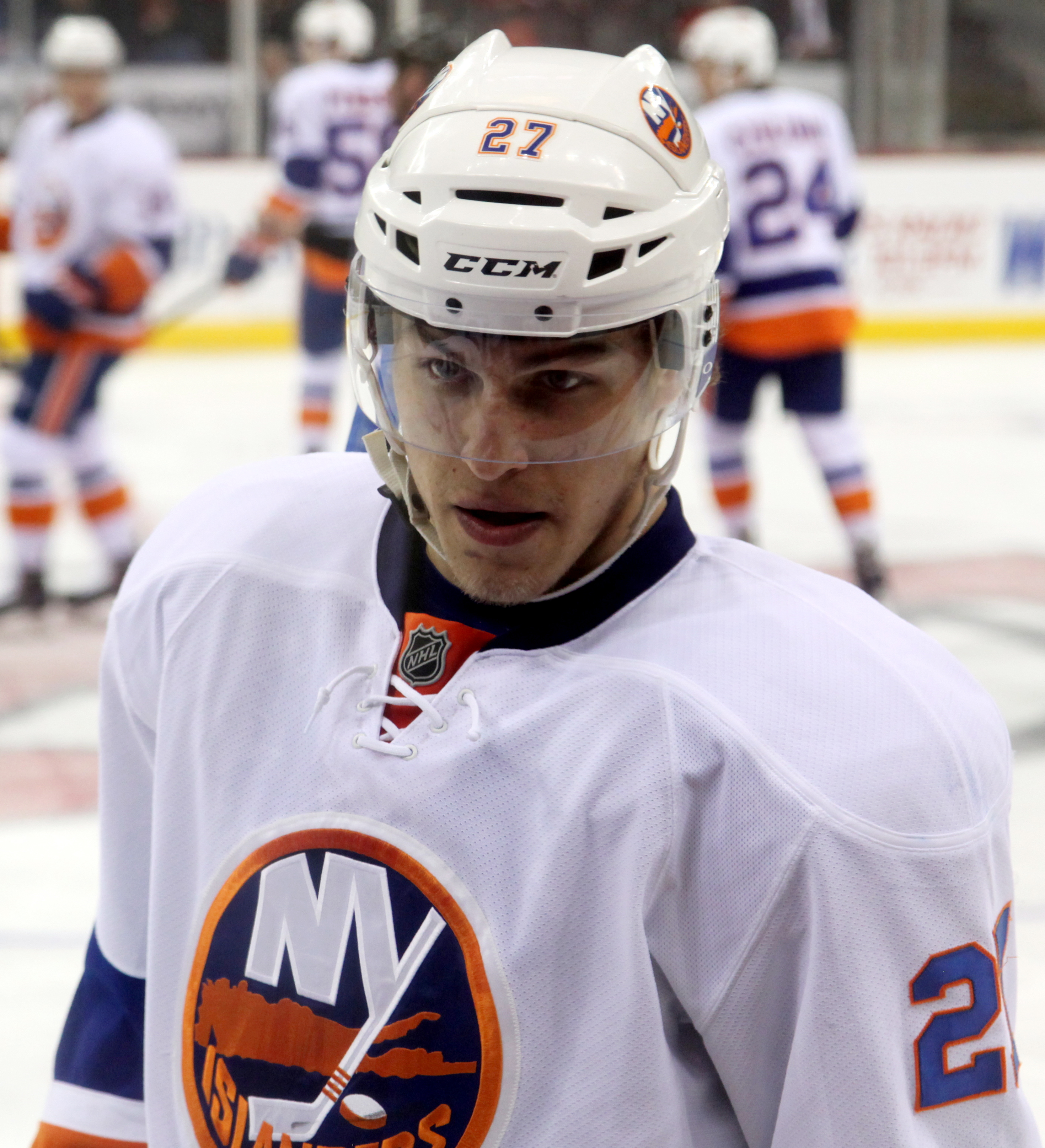 Anders Lee as a member of the New York Islanders.